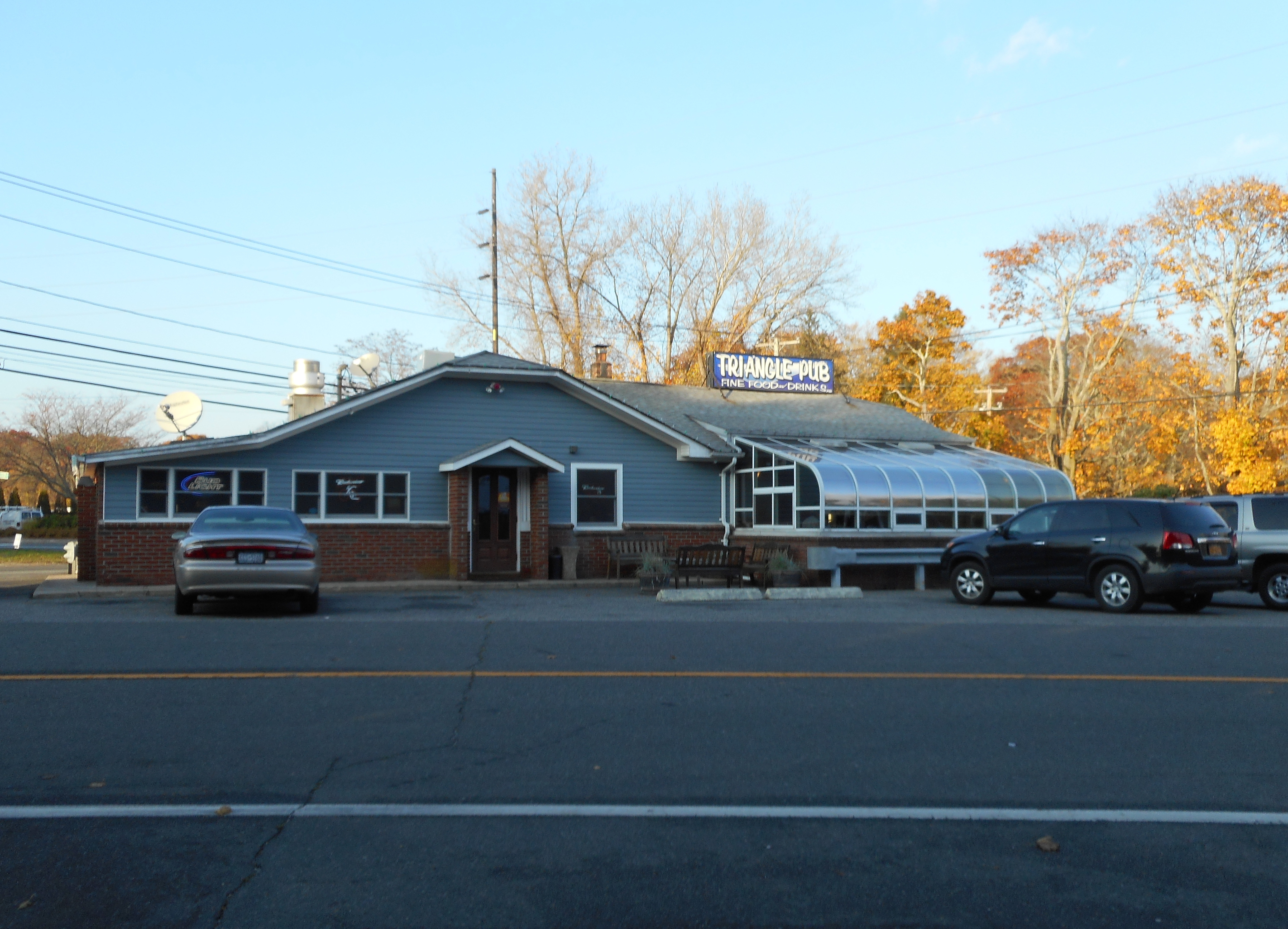 The Triangle Pub on the southwest corner of Old Country Road (Suffolk CR 71) and Eastport-Manor Road (Suffolk CR 55) in Eastport, New York. This view is from the east to south turning ramp which dates back to its origins as a connecting ramp between two former parts of Montauk Highway that were part of Montauk Highway until 1965.